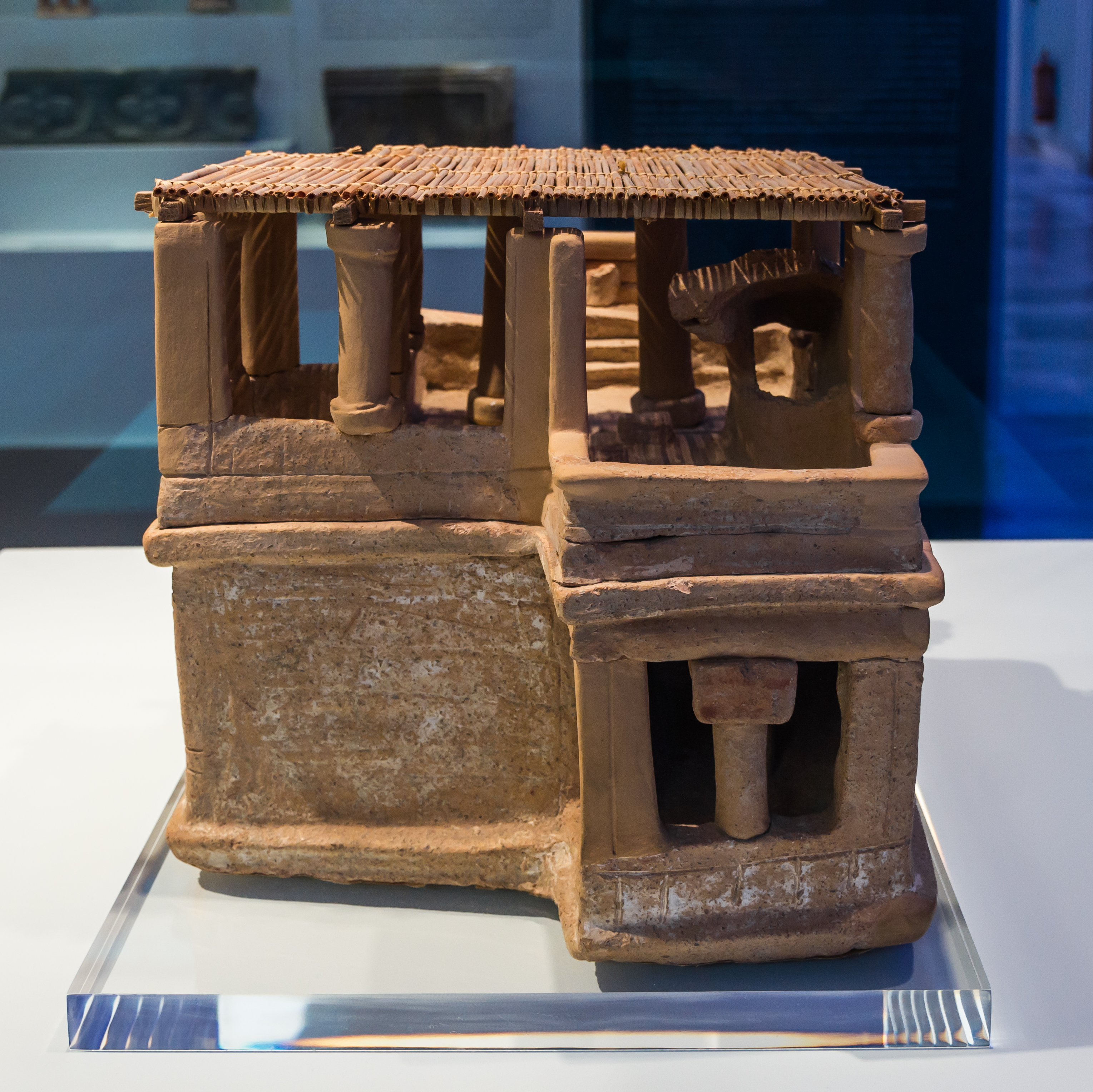 A clay minoan model (restored) of a house. ca.1600 BCE.